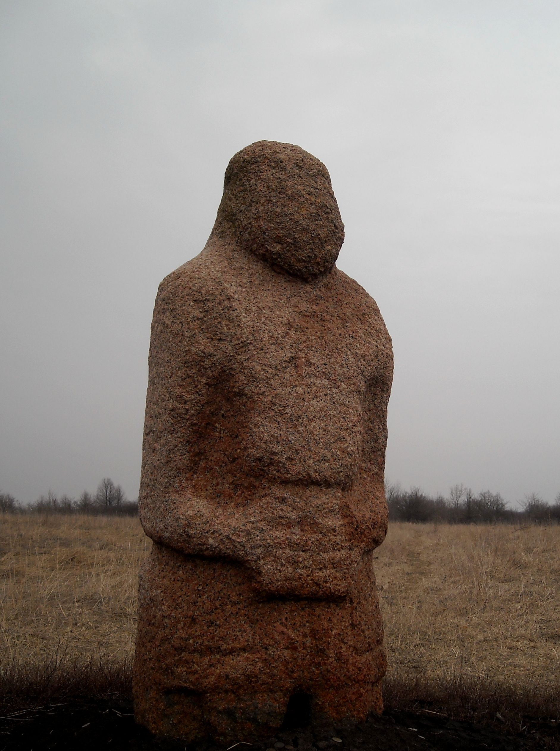 Cuman sculpture (Kurgan stelae). Kursk oblast. Sculptor is unknown and died more than 1000 years ago.